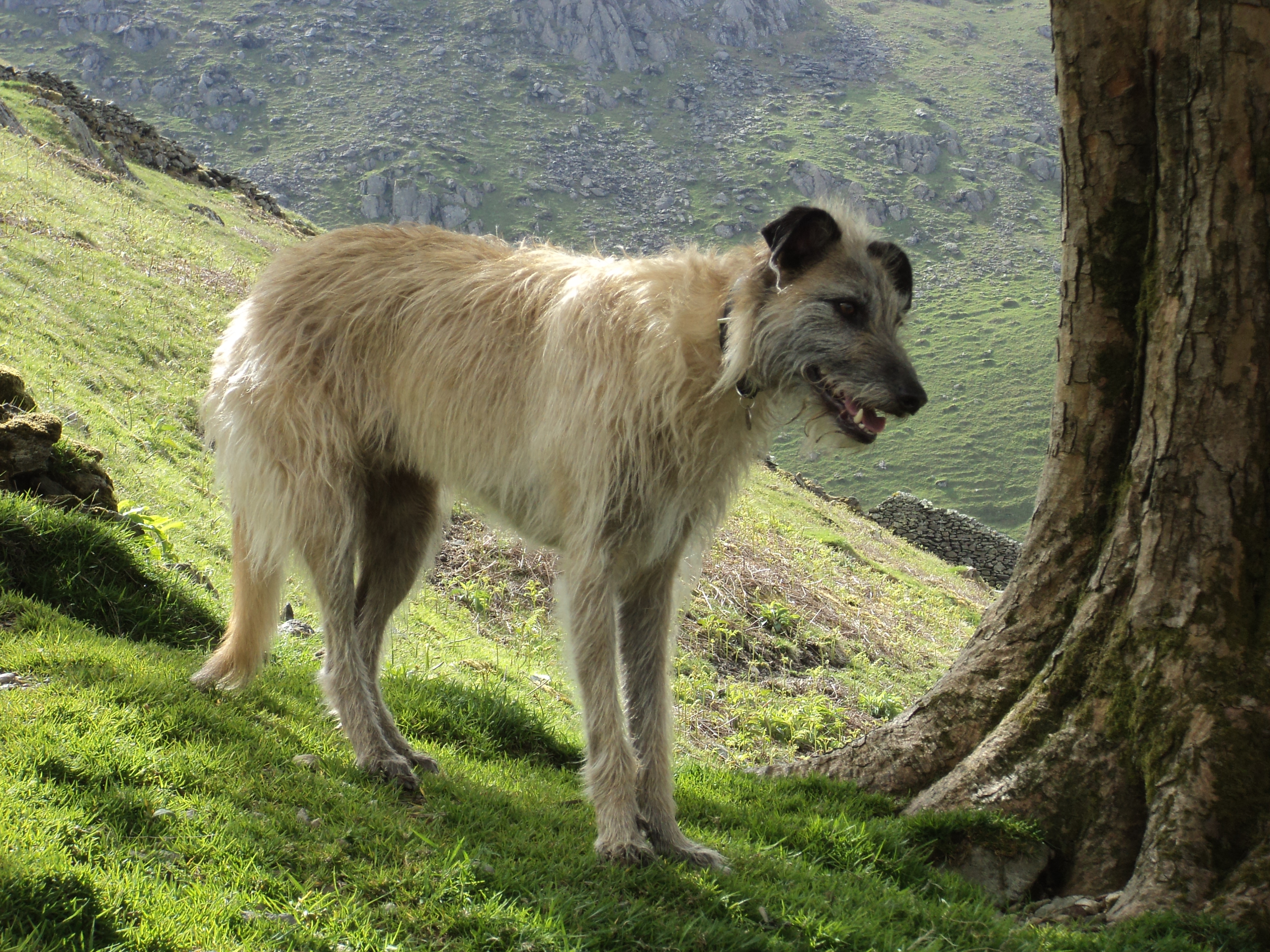 Long haired Lurcher